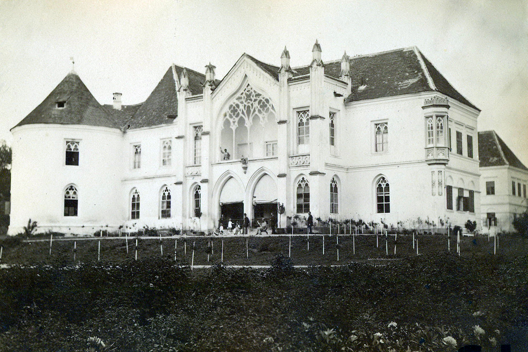 Banffy Castle in Bonţida, 1890